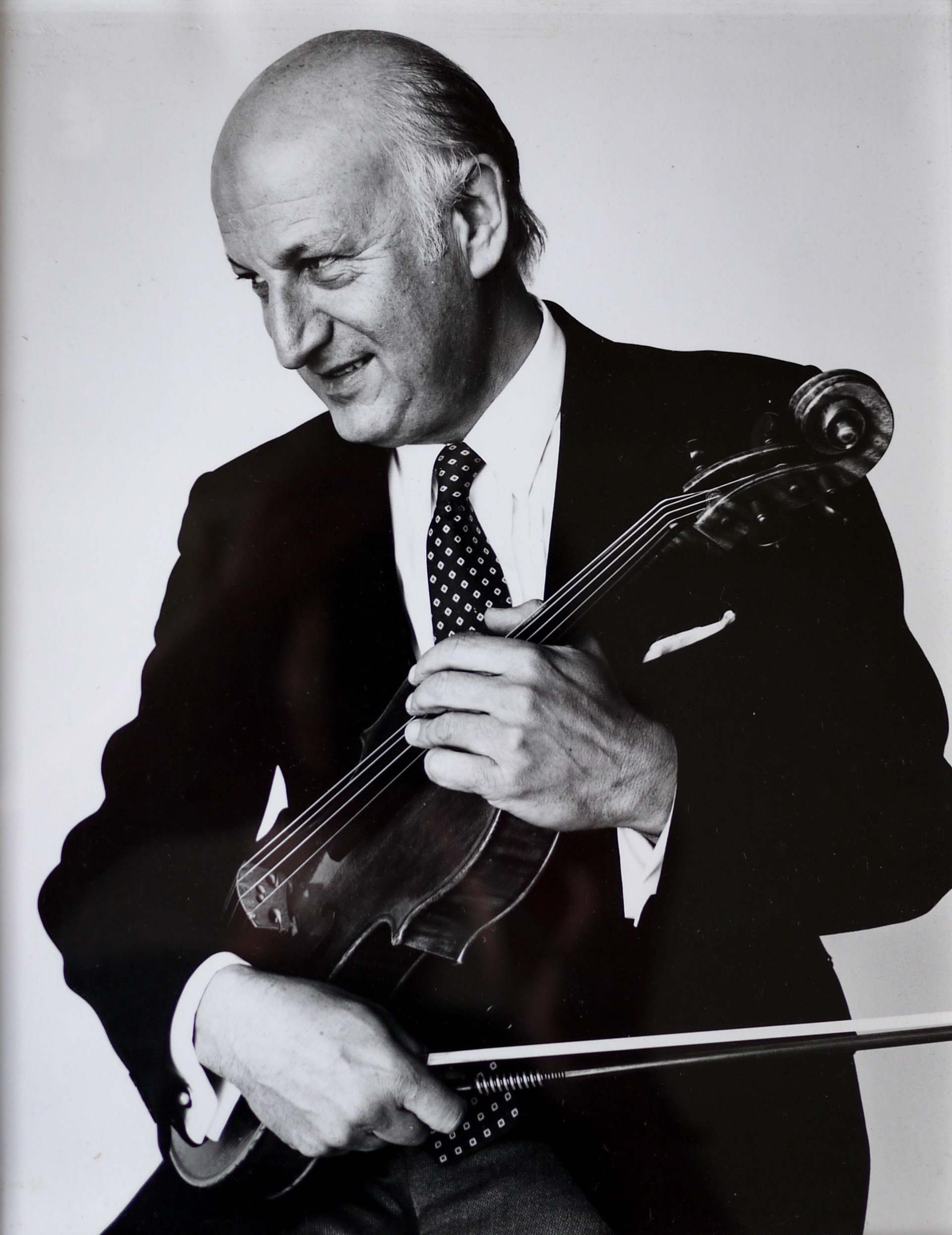 Peter Schidlof of the Amadeus Quartet